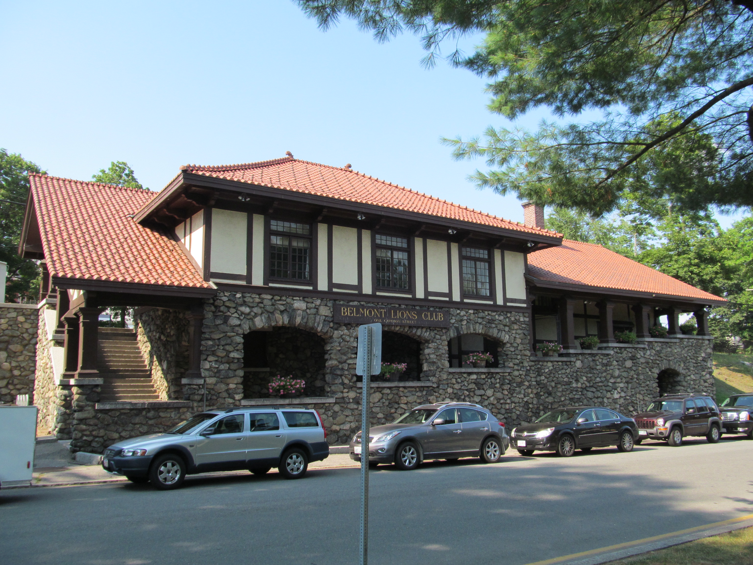 Belmont Lions Club, Belmont Massachusetts - 2012